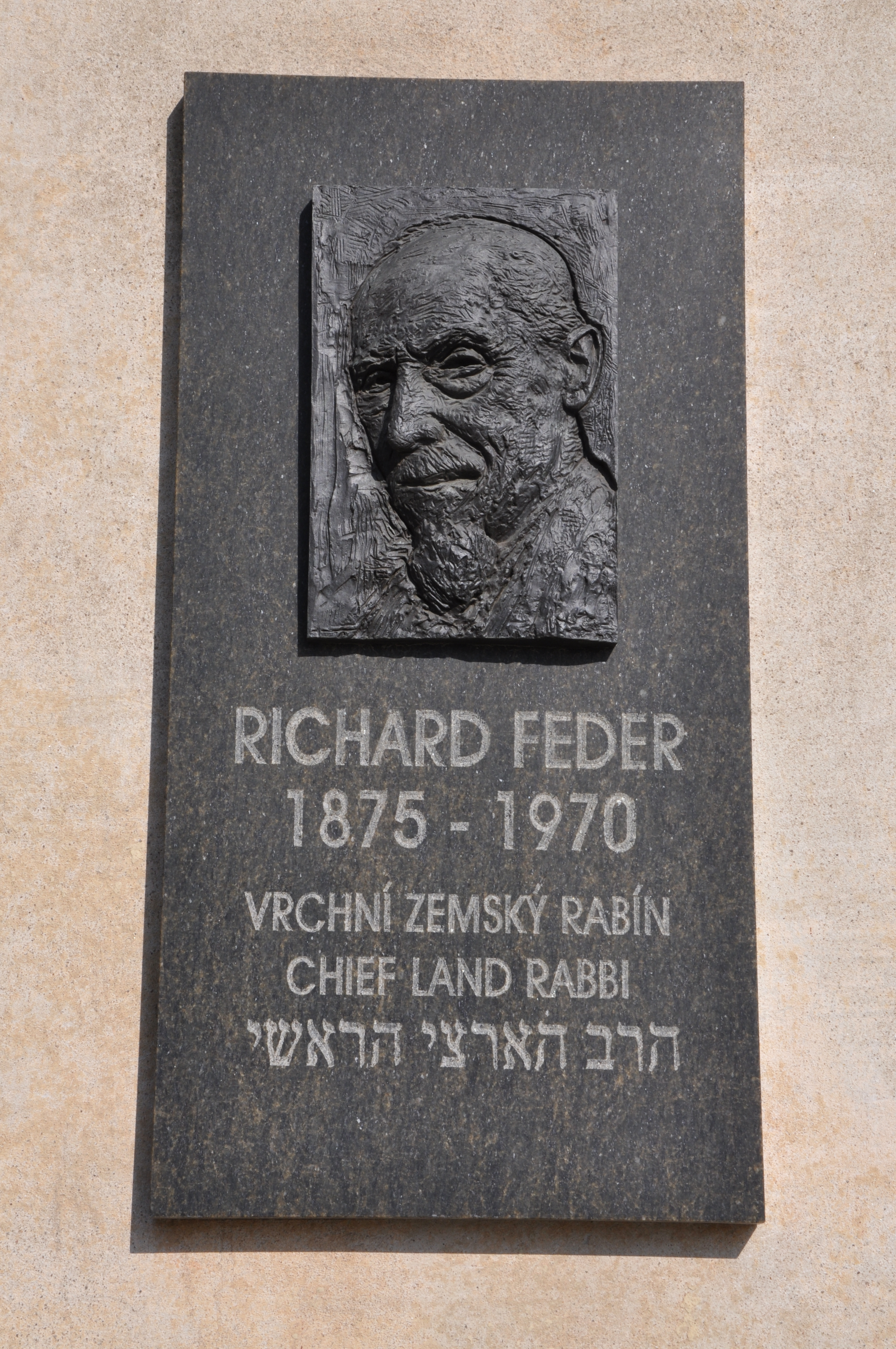 Richard Feder